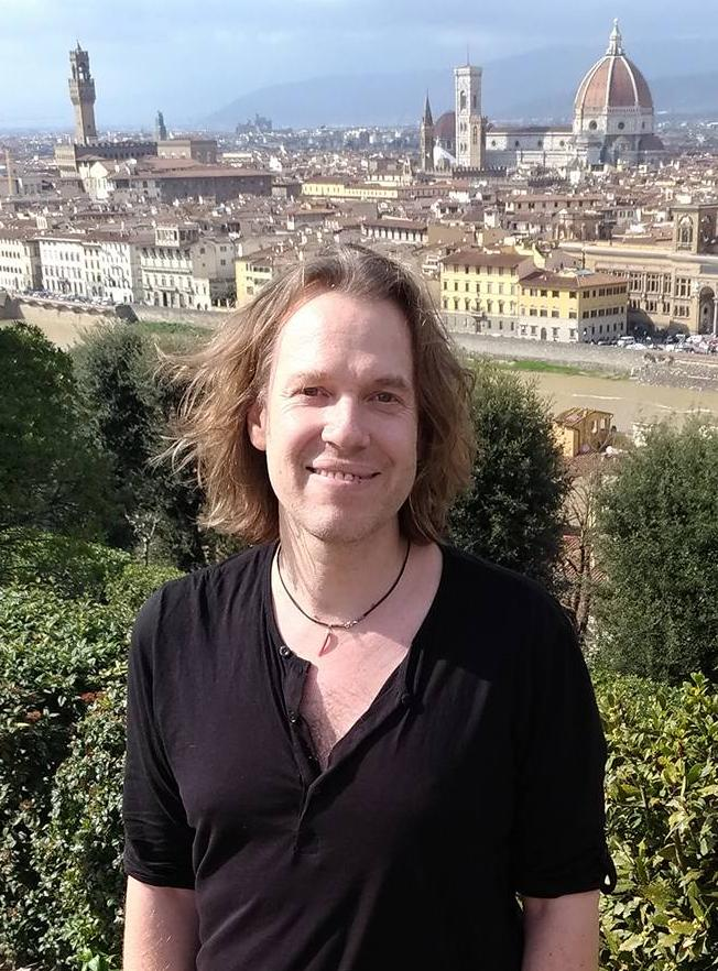 Stefan Sorgner in Florence, April 2018